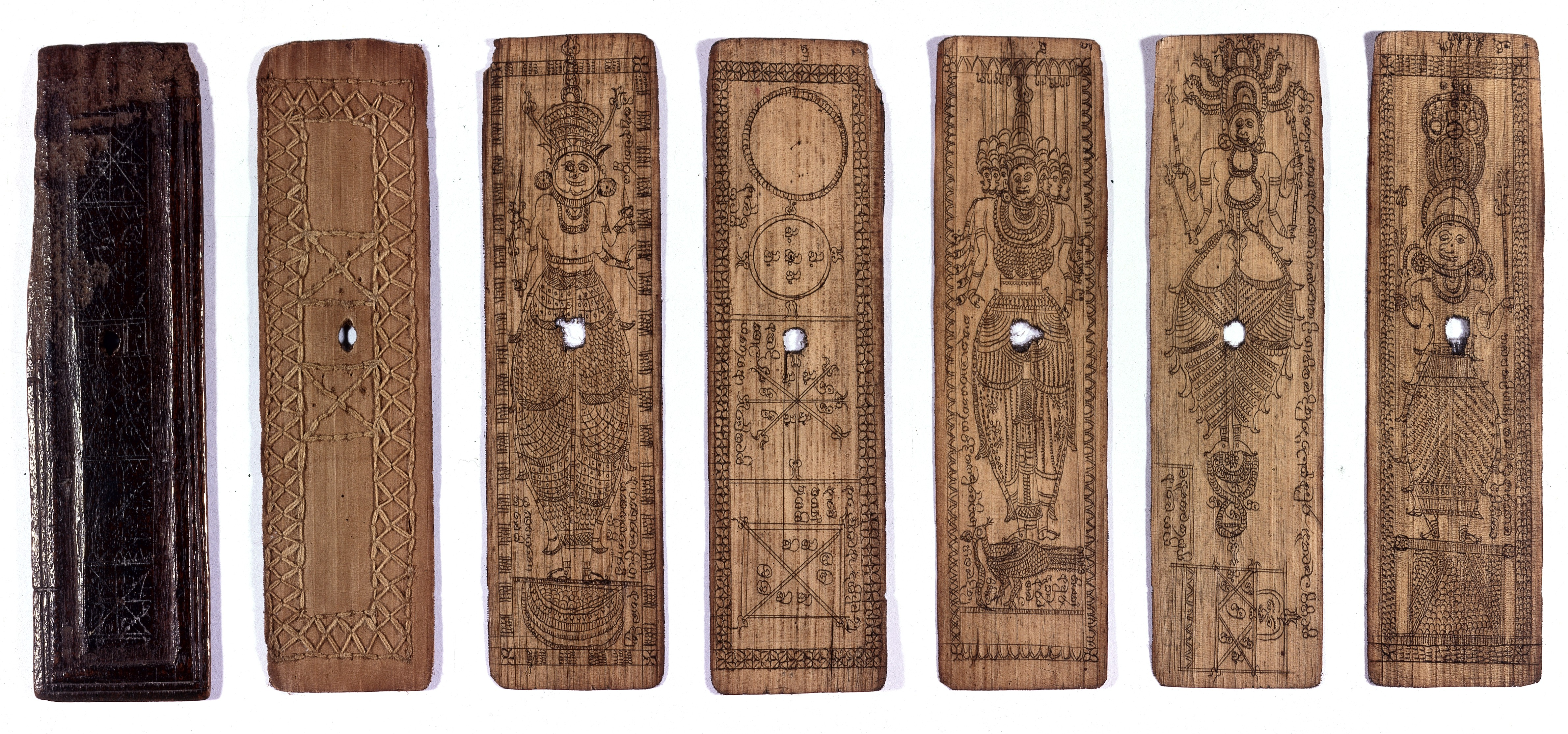 Line drawings from book of charms Asian Collection